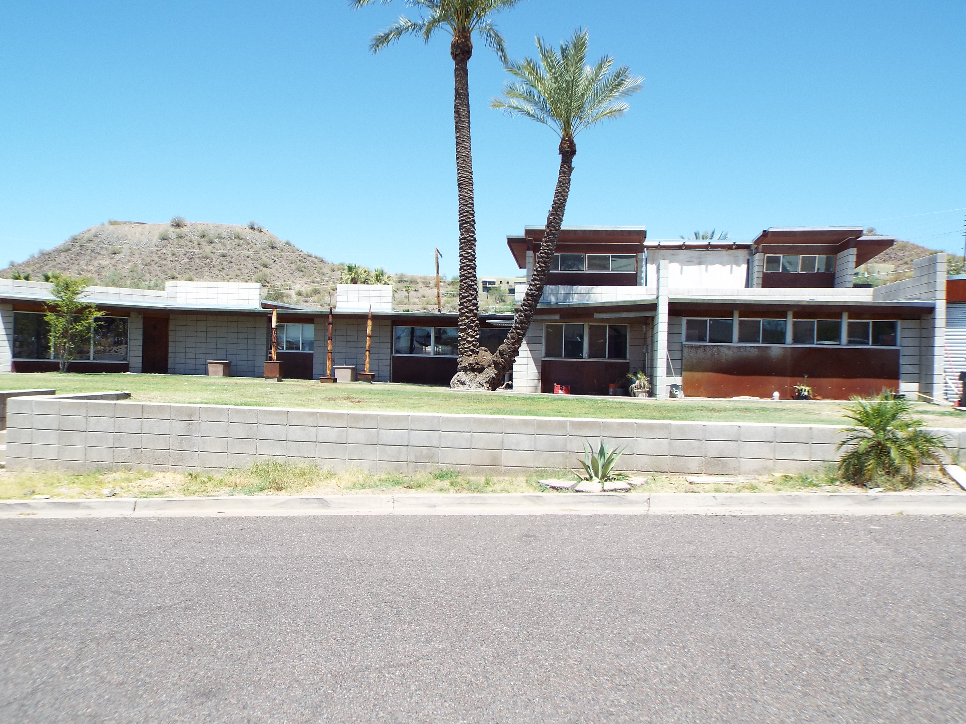 The Dr. Kenneth E. Hall house built in 1946 and located at 9840 N. 2nd. Street in Sunnyslope, Phoenix, Arizona. Hall moved into the house in 1954 after some renovations were made.